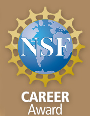 NSF Career